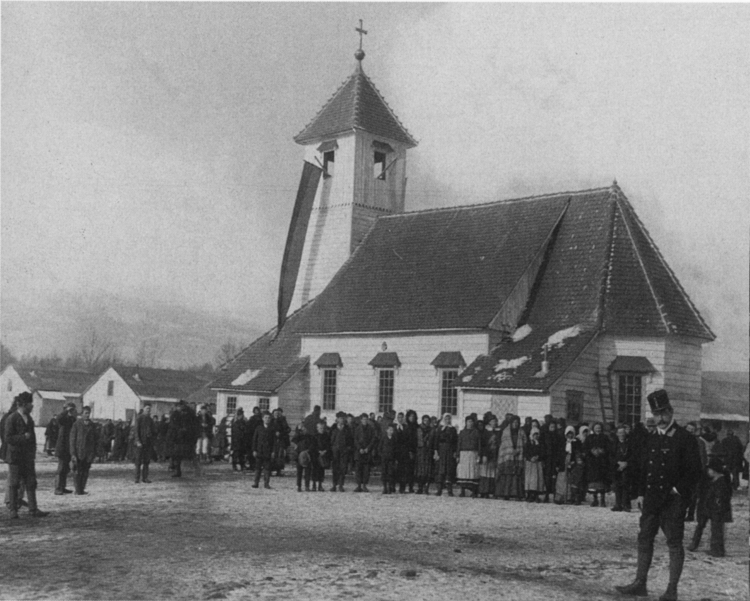 Petschar, Friedlmeier, Steiermark in alten Fotografien, Ueberreuther Verlag Wien. Scanprojekt Community Projektbudget 2012 This scan or this PDF-file was created within the GLAM-project Bookscanning, supported by Wikimedia Germany and Wikimedia Austria as a part of the community-project to capture books, documents and pictures which are not eligible to copyright or for which the copyright has expired. This document describes or depicts an object which is located in Austria today. Texts are written German language. Send requests for uncompressed scans to Hubertl. This work is in the public domain in its country of origin and other countries and areas where the copyright term is the author's life plus 100 years or less. You must also include a United States public domain tag to indicate why this work is in the public domain in the United States. This file has been identified as being free of known restrictions under copyright law, including all related and neighboring rights.